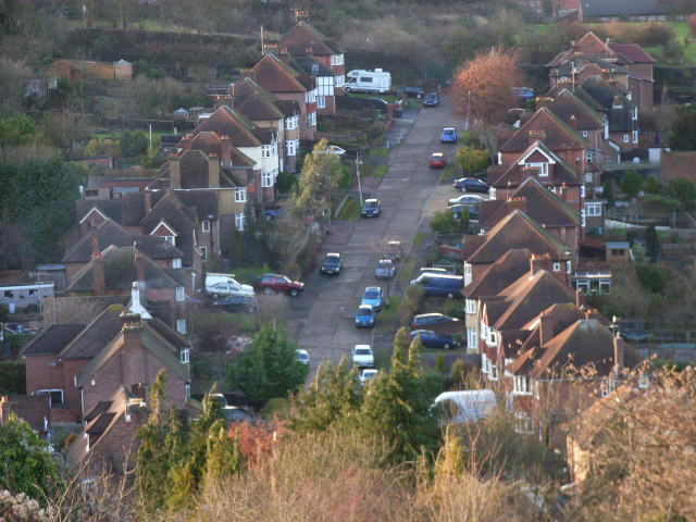 Colville Road, High Wycombe.